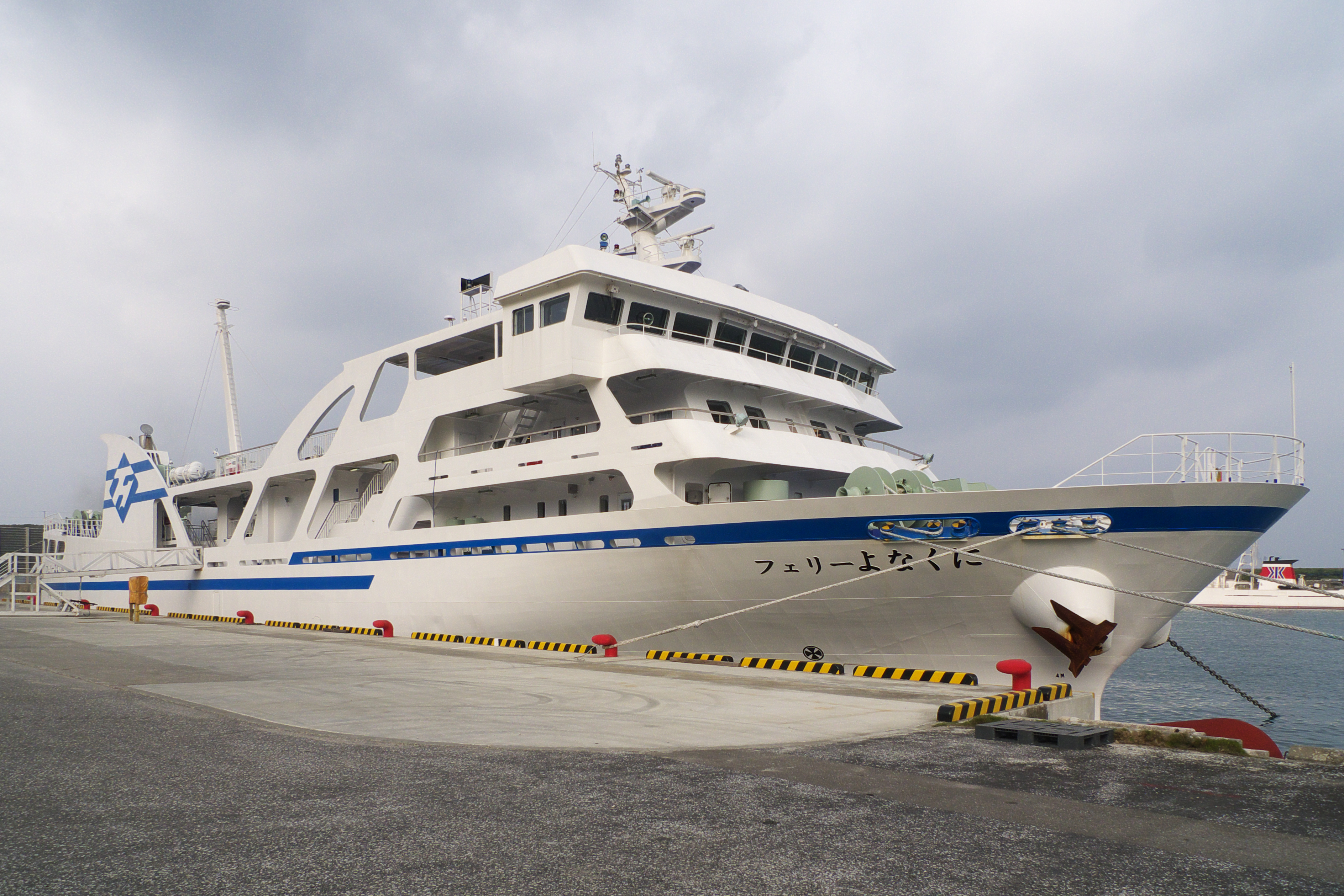 The Ferry Yonakuni at the Port of Kubura in Yonagunijima, Okinawa Prefecture, Japan